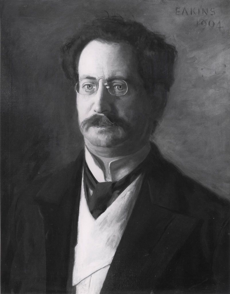 Paintings by Thomas Eakins